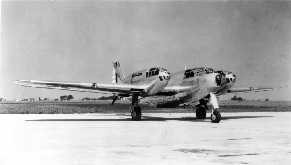 PictionID:40971862 - Title:Airacuda Bell YFM-1A - Catalog:15_002695 - Filename:15_002695.tif - Image from the Charles Daniels Photo Collection album "US Army Aircraft."----PLEASE TAG this image with any information you know about it, so that we can permanently store this data with the original image file in our Digital Asset Management System.----SOURCE INSTITUTION: San Diego Air and Space Museum Archive